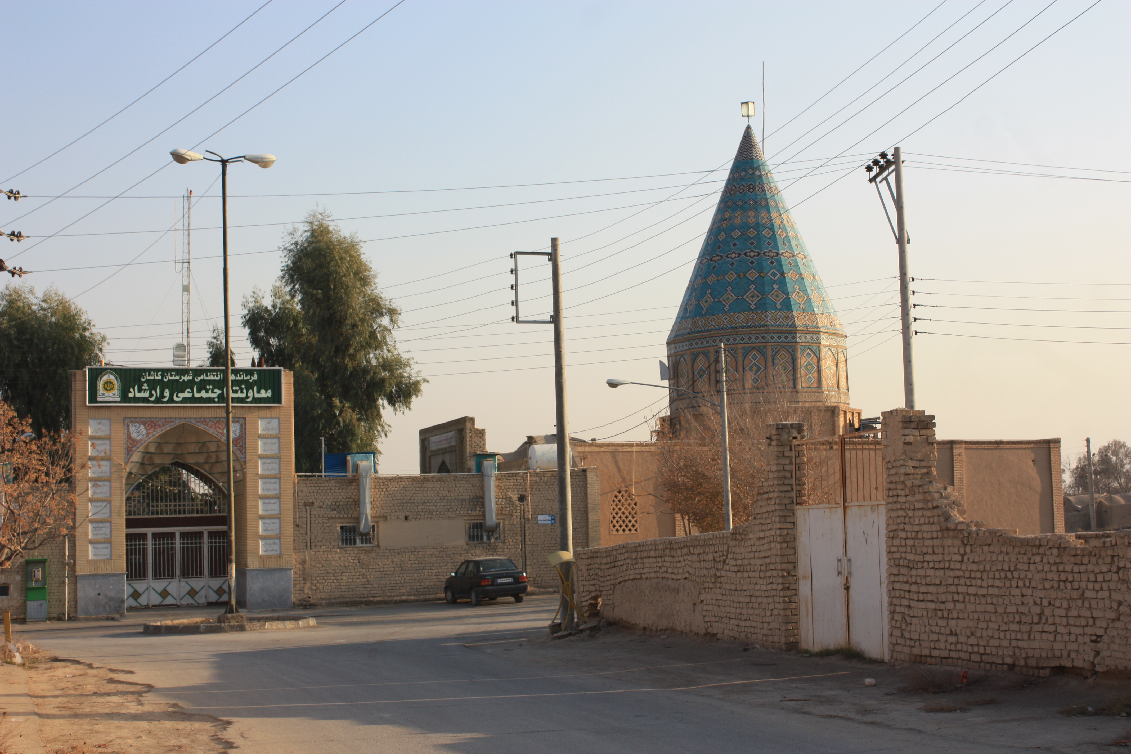 Tomb of Abu Lu Lu